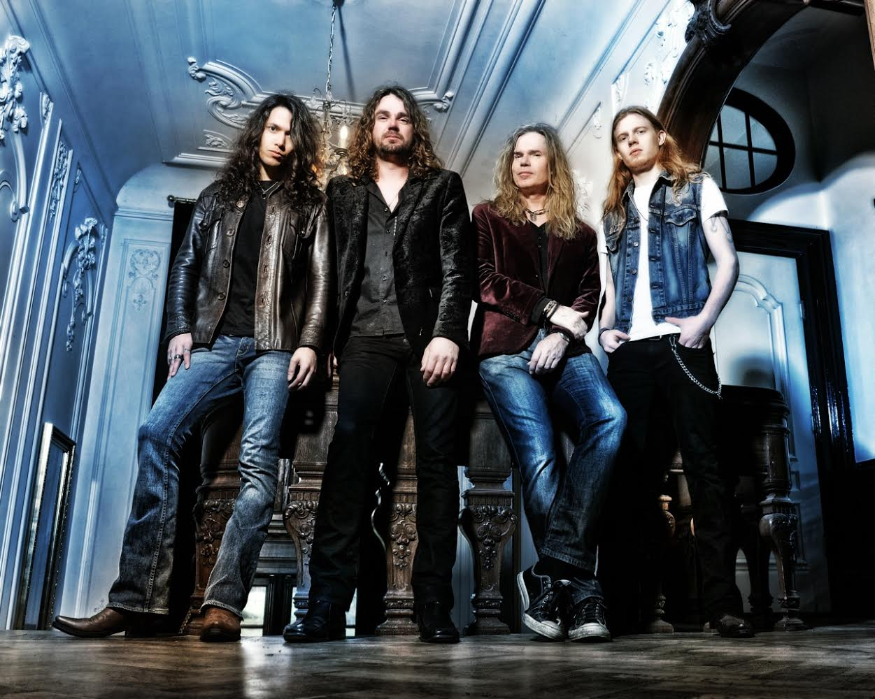 Vandenberg's Moonkings, Stefan Schipper